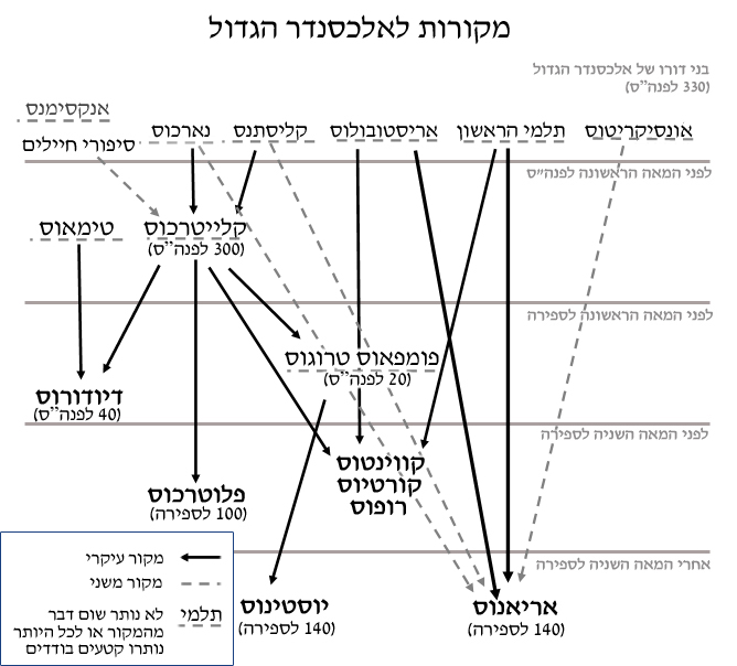 Based on: [1]